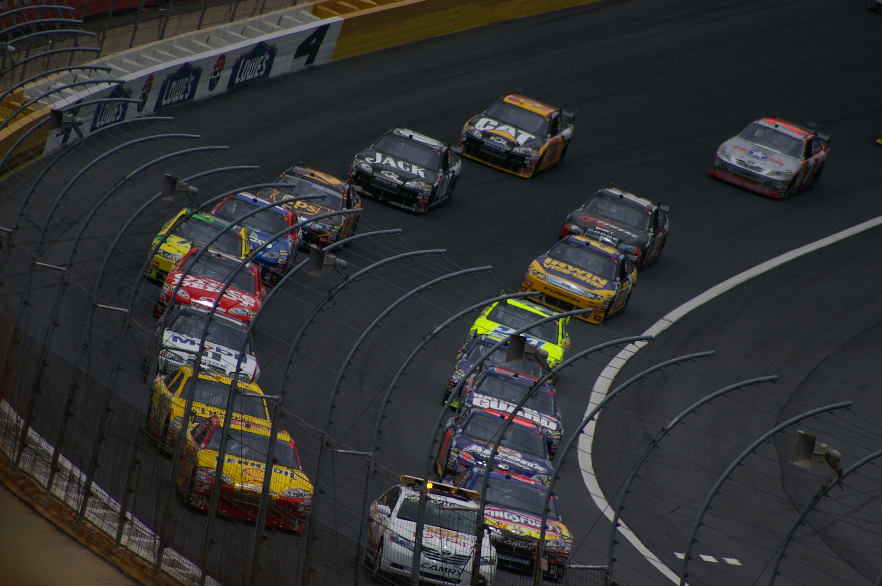 Racing in the 2009 Coca-Cola 600